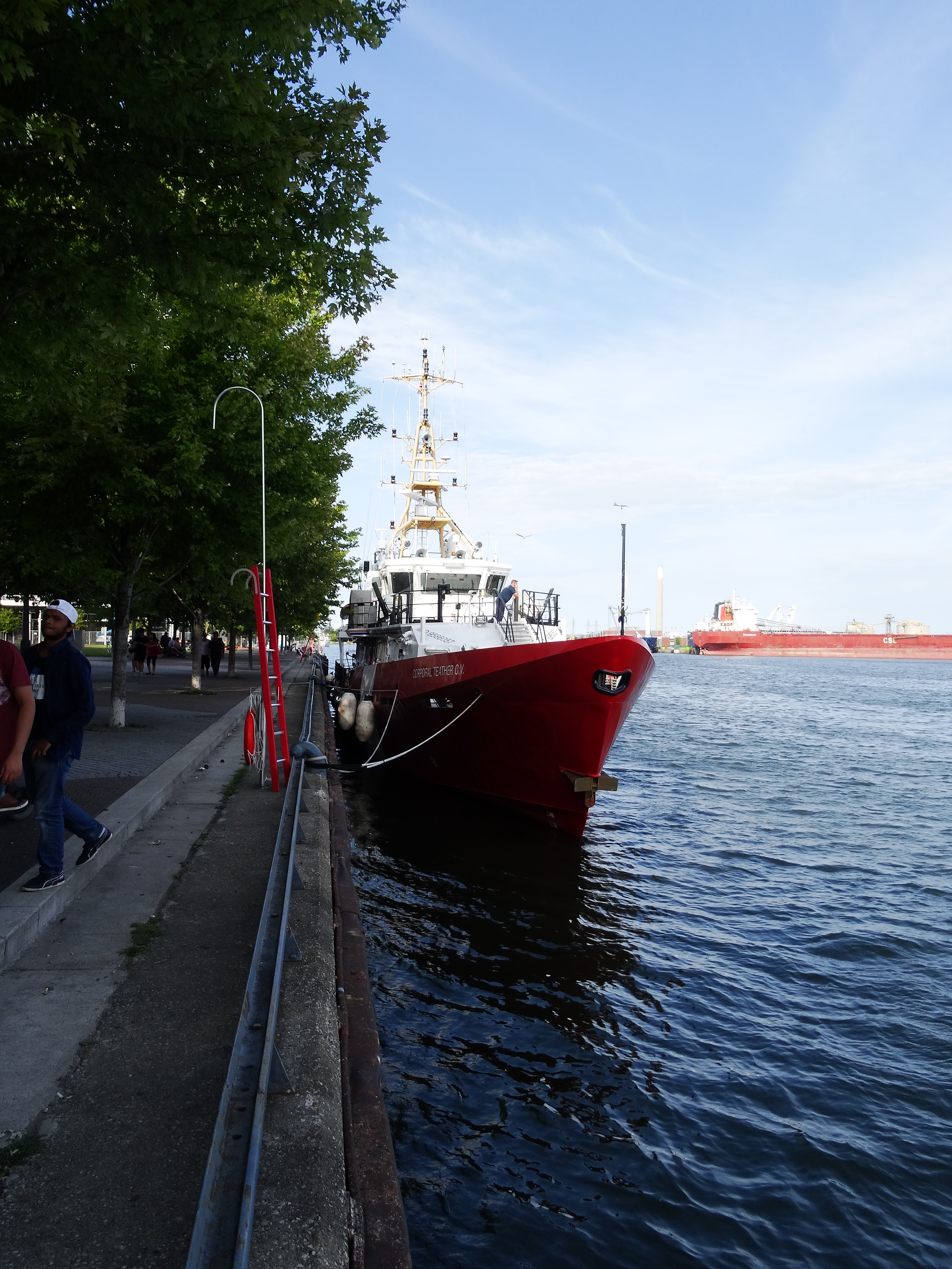 CCGC Corporal Teather C.V., 2016 07 30 (4)